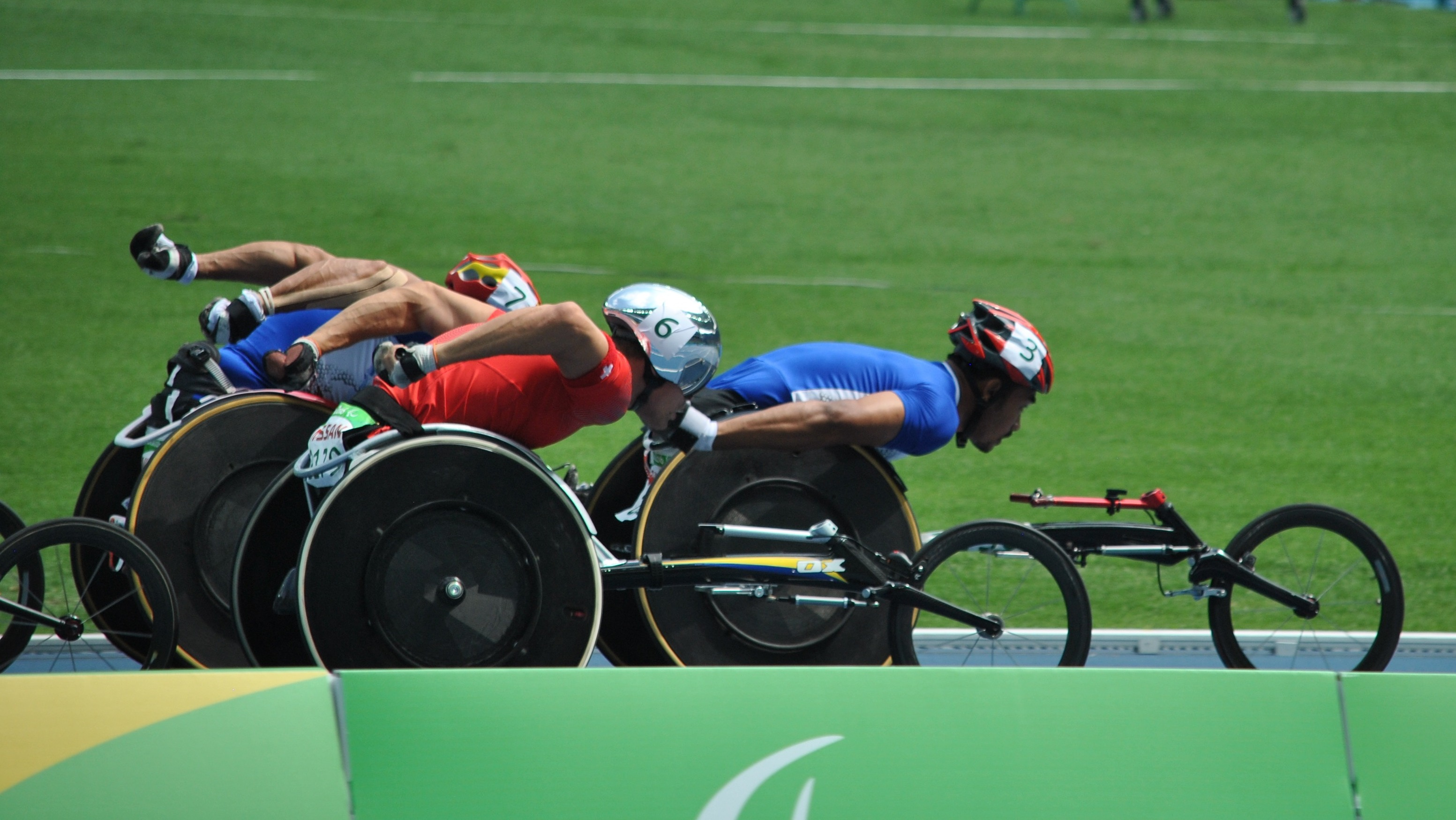 Men's 5000m - T54 Final - Rio 2016 paralympic games. Olympic Stadium (Engenhão)